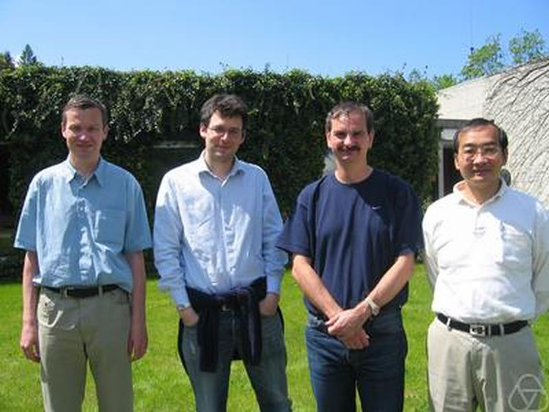 From Left: Manfred Salmhofer, Benjamin Schlein, Laszlo Erdös, Horng-Tzer Yau, Oberwolfach 2008